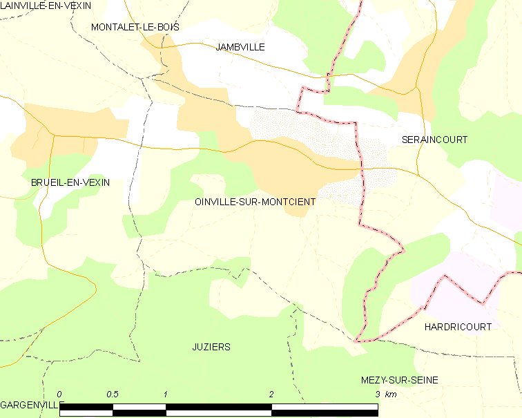 Map of French municipality Oinville-sur-Montcient